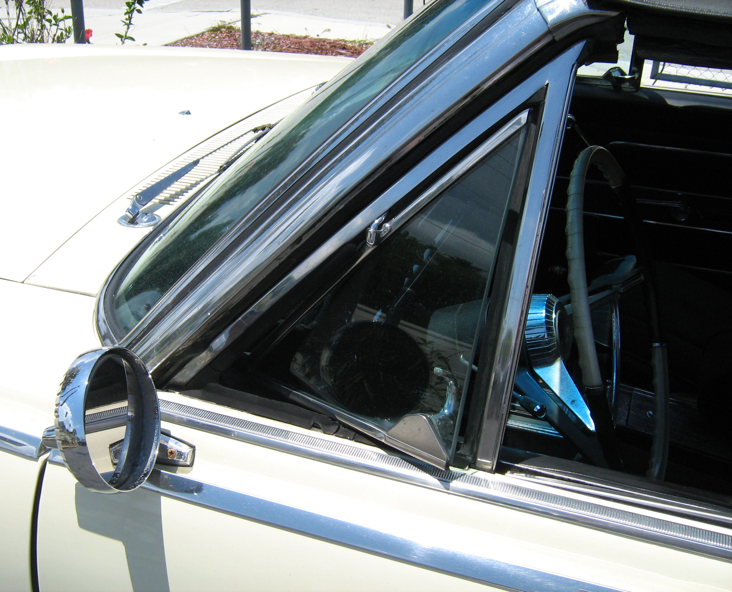 American Motors (AMC) 1965 Rambler 990 Ambassador convertible. Detail of driver's side vent window and the factory (remote adjustable) outside rear view mirror.